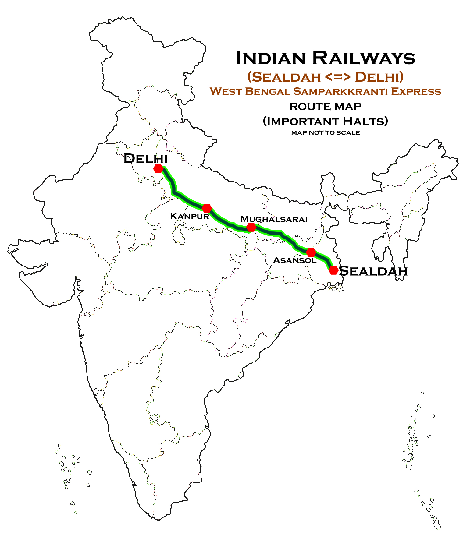 West Bengal Samparkkranti Express (DLI - SDAH) Route map